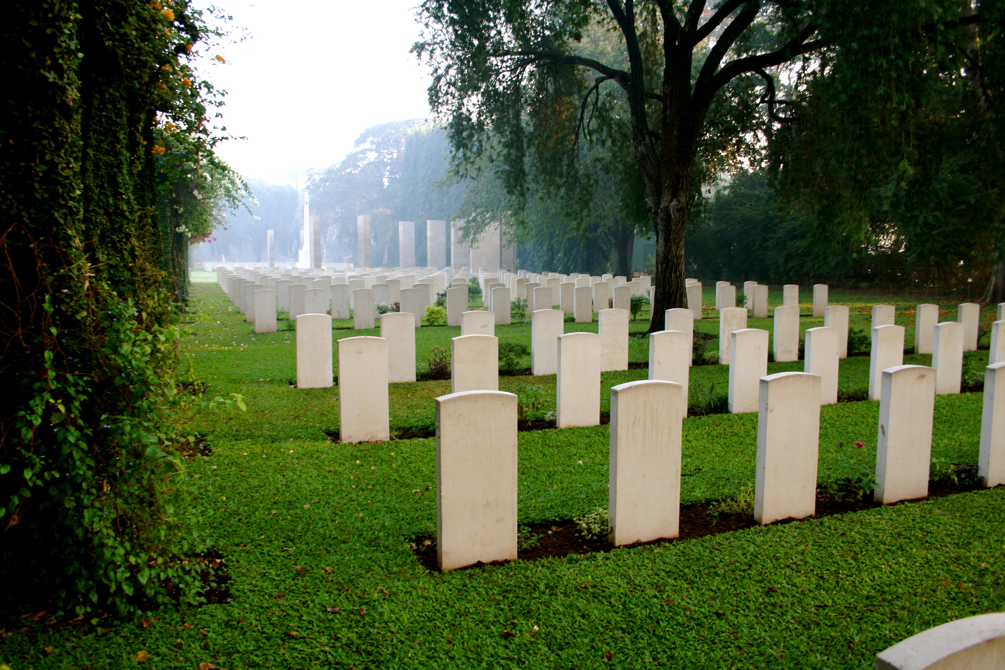 Kirkee War Cemetery, near Pune, Maharashtra